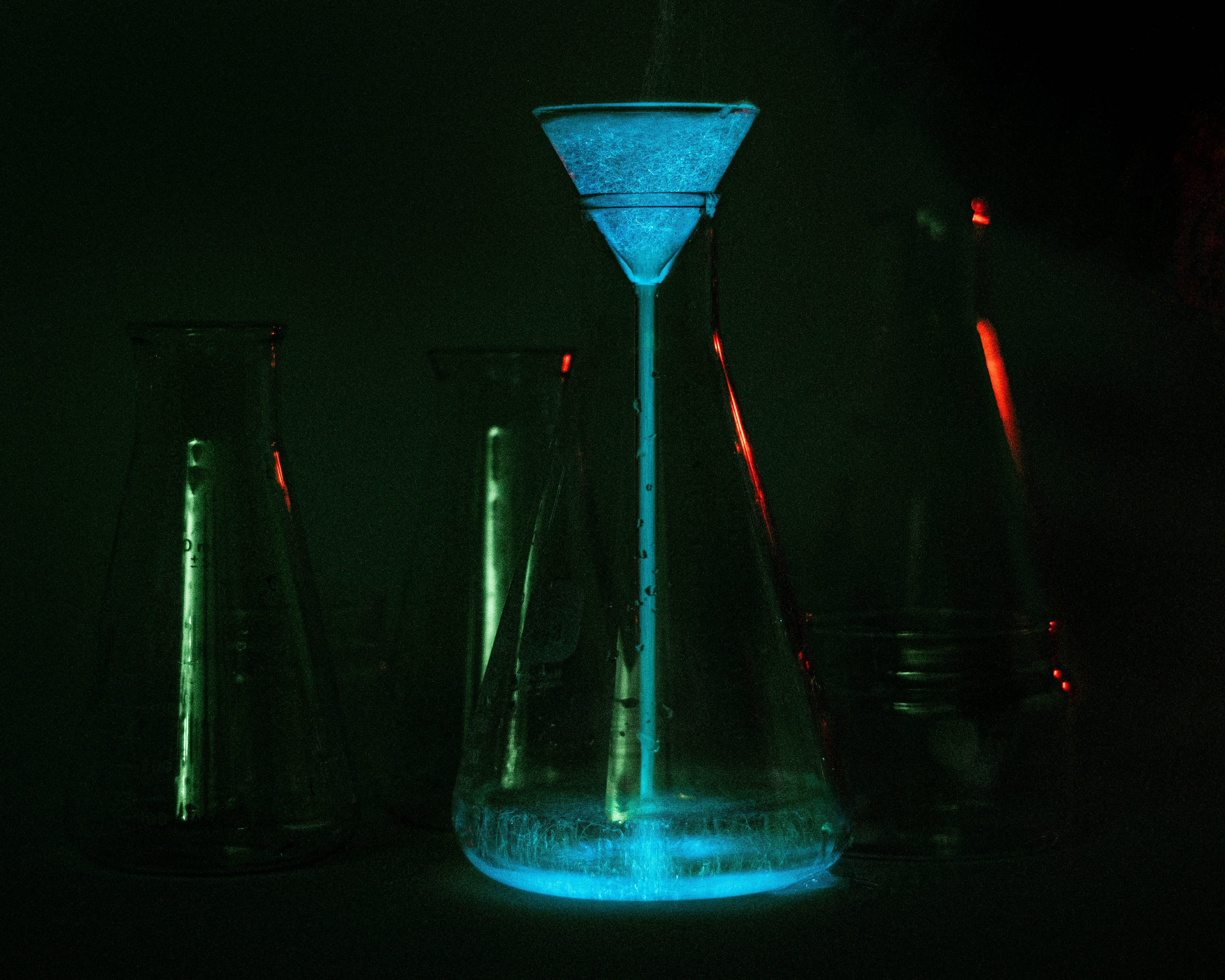 Pyrocystis fusiformis cells produce a blue light when shaken or agitated. The green and red colors in the photo are caused by a lit exit sign and power strip in an otherwise dark room.